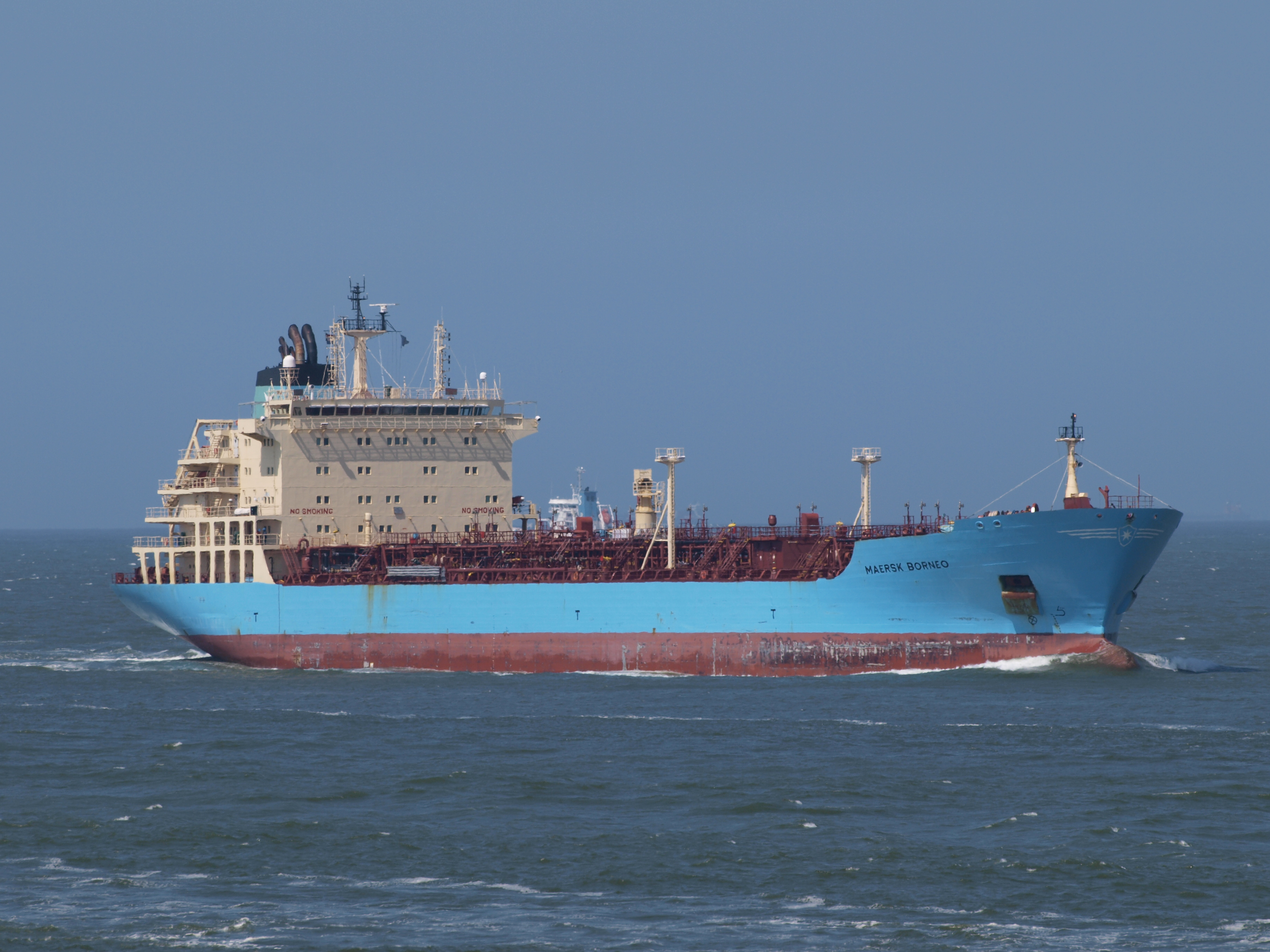 Photographed at or near the Port of Rotterdam.